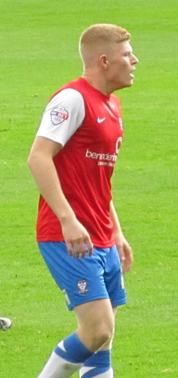 Elliott Whitehouse playing for York City against Fleetwood Town at Bootham Crescent, York on 26 October 2013